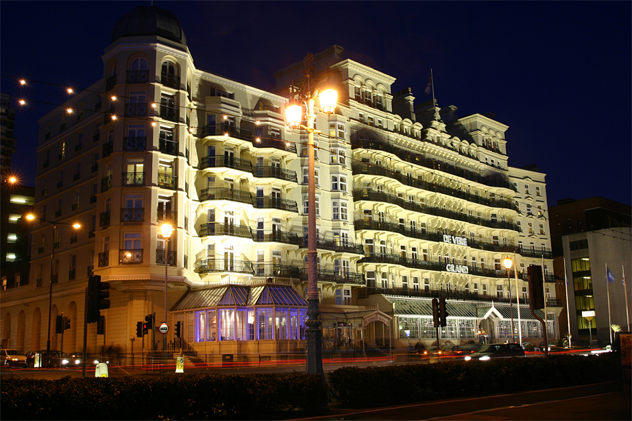 Grand Hotel in Brighton.